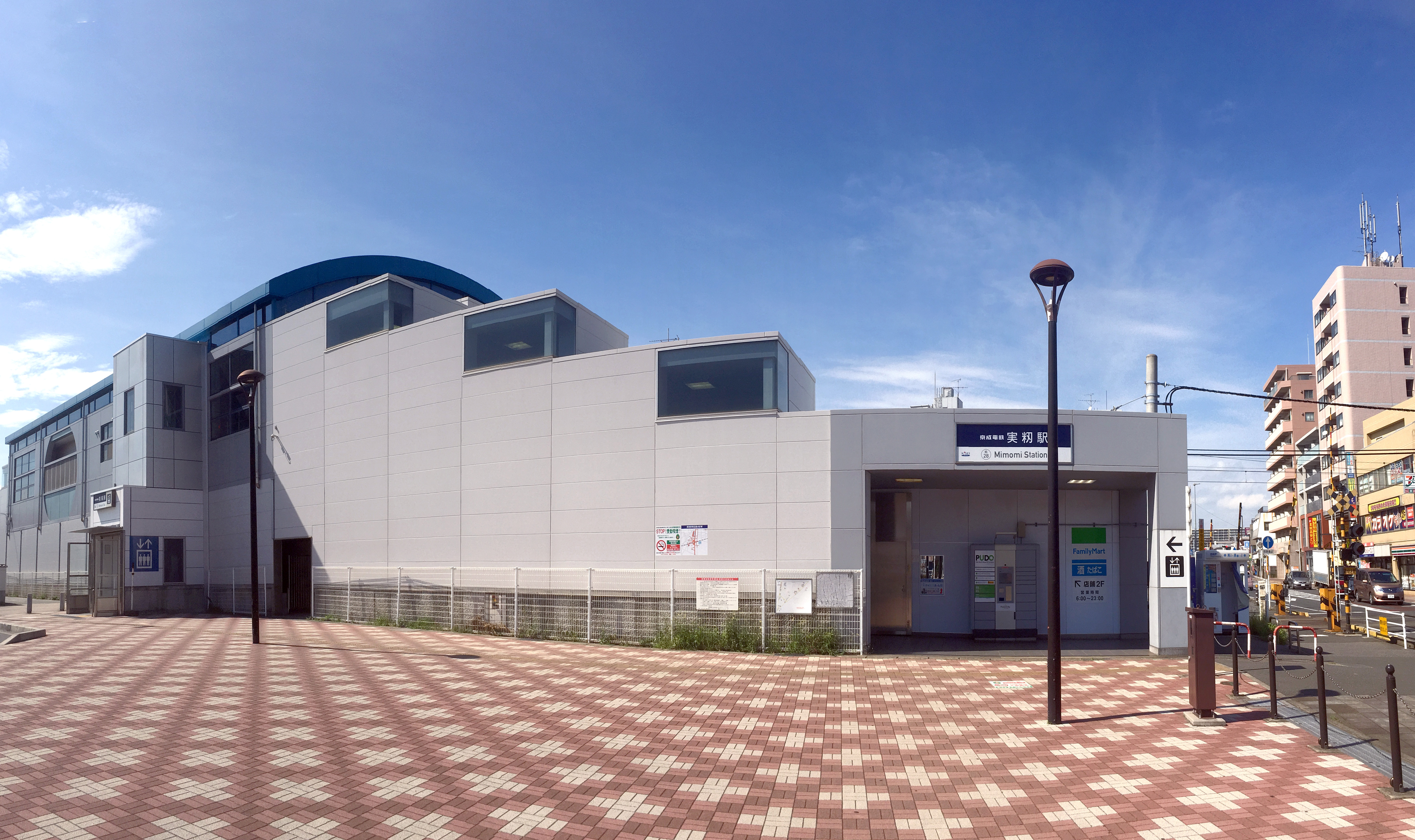 実籾駅の南口 (Mimomi Station south exit)